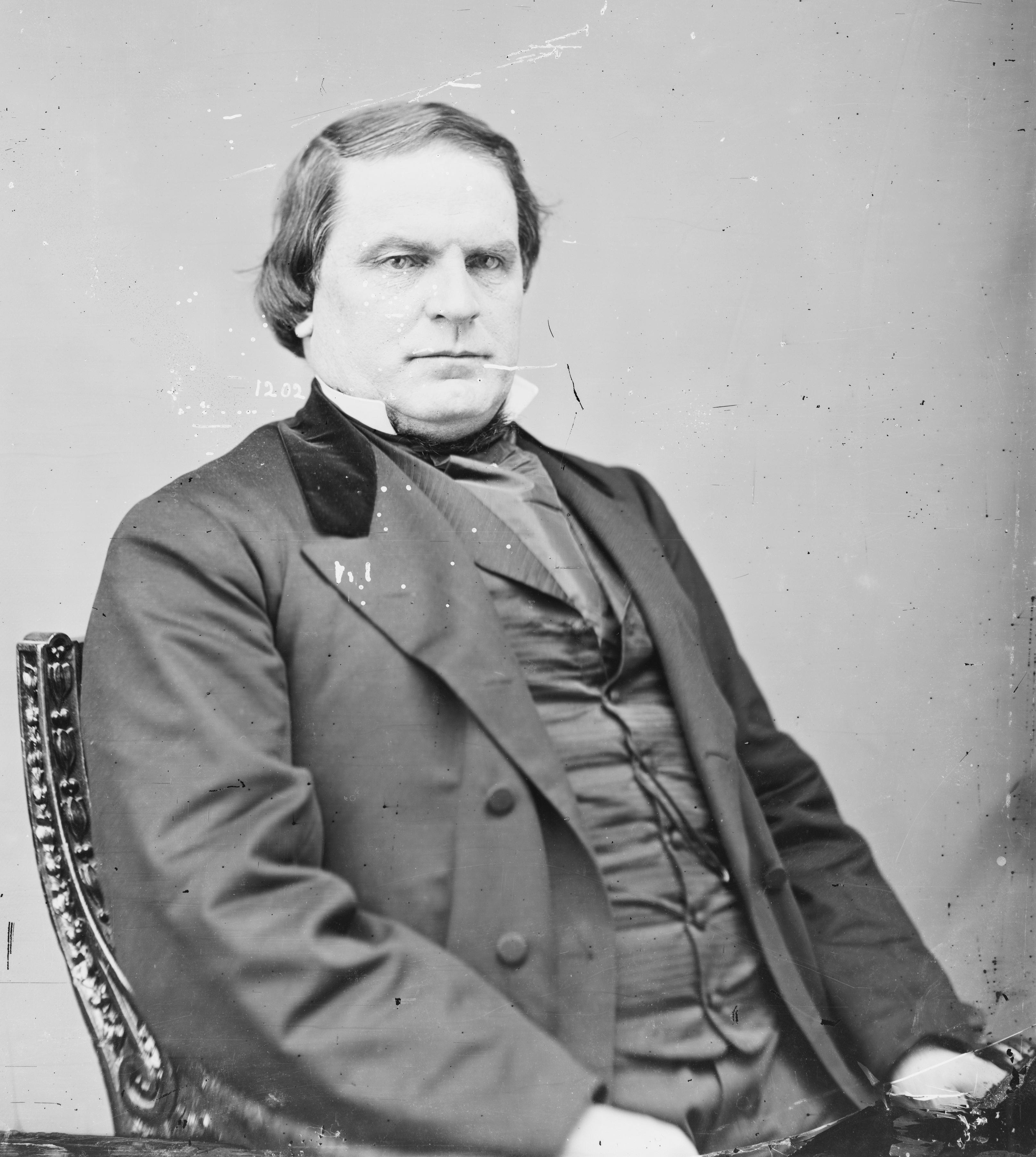 Lewis E. Parsons. Library of Congress description: "Parsons, Gov. Lewis E.".